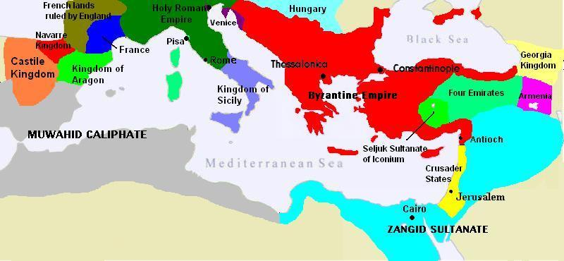 The Byzantine Empire and Mediterranean world by 1173 AD